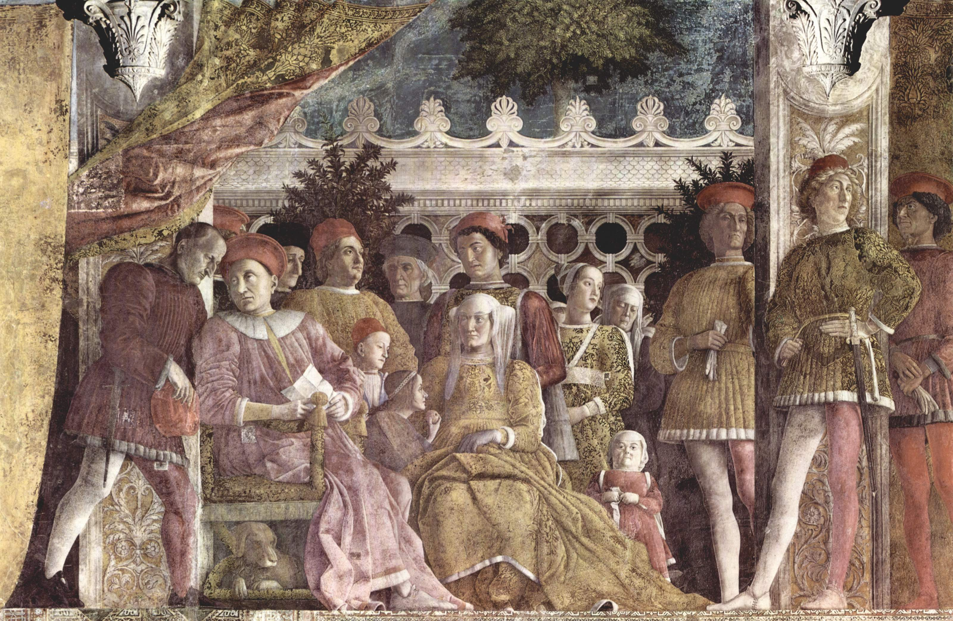 At the left, Ludovico II Gonzaga. Besides him his wife Barbara von Brandenburg and their siblings Ludovico Gonzaga, Paola Gonzaga and Rodolfo Gonzaga.